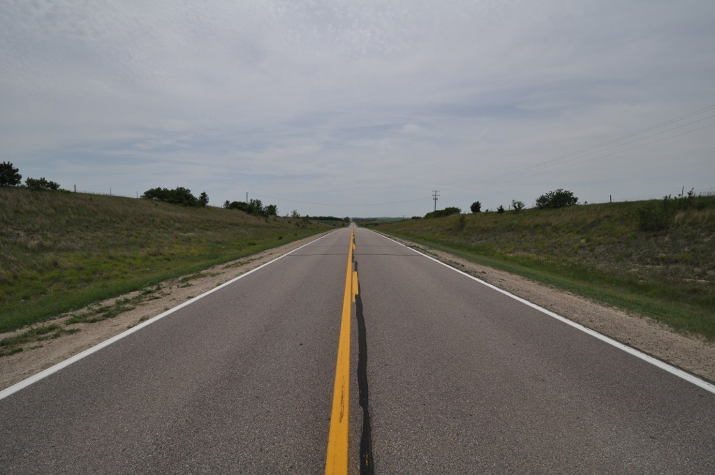 Nebraska Highway 15, seen running directly south through rolling hills in northern Nebraska.